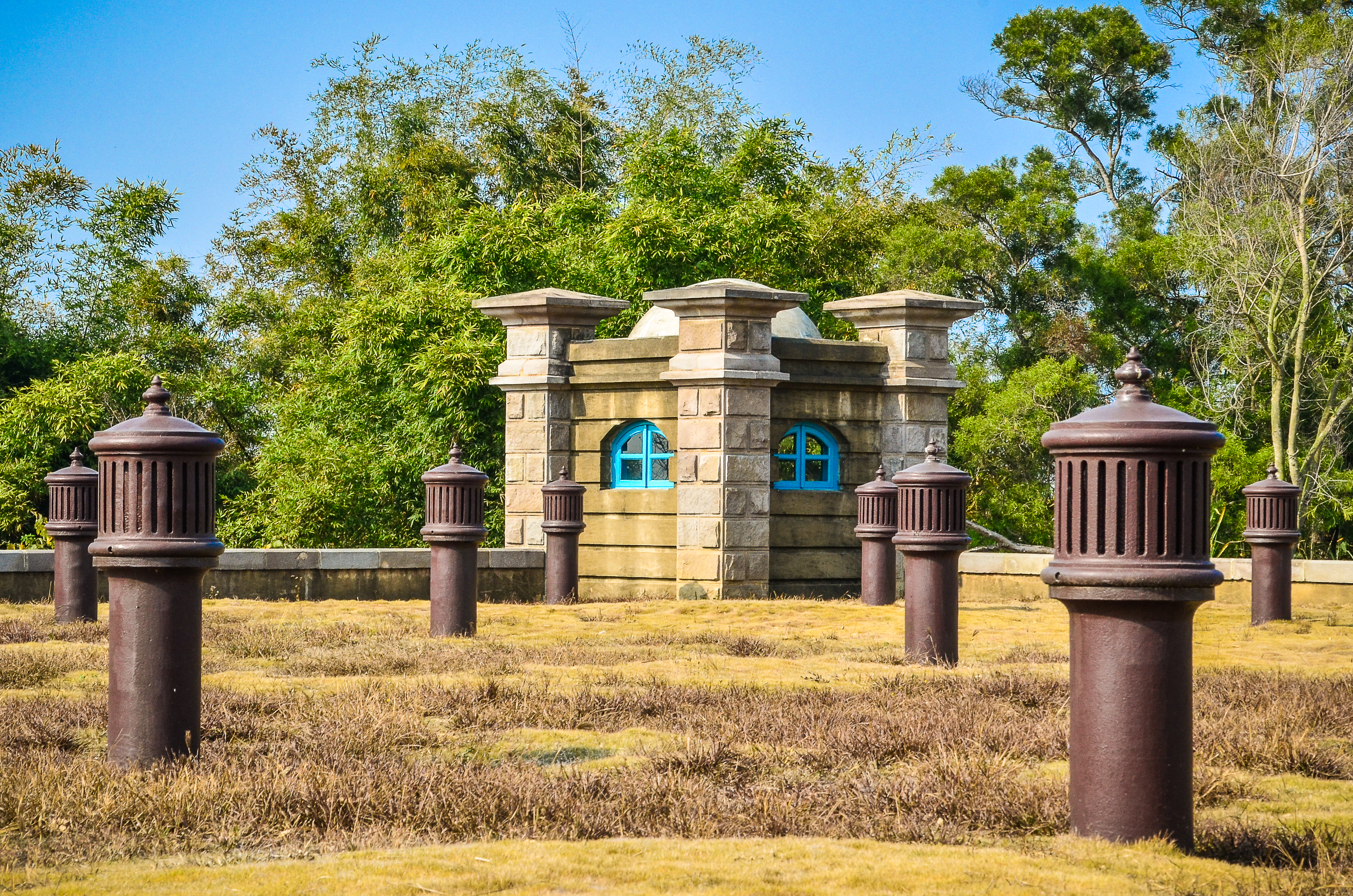 Cast iron air relief pipes at the top of the storage tank at the Shanshang Water Treatment Plant, Tainan City, Taiwan.